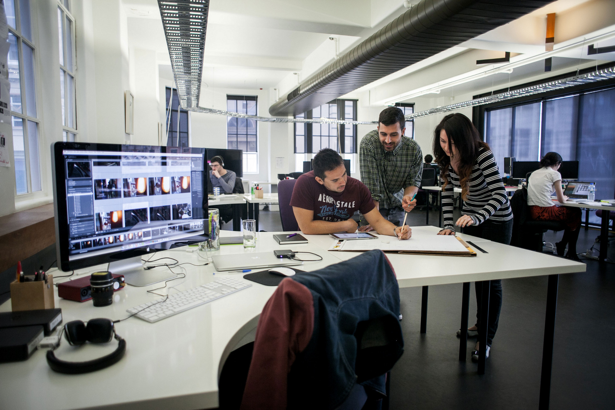 Small World Social Teamwork